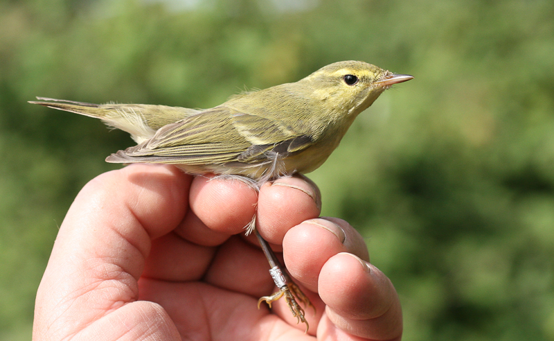 Phylloscopus nitidus (Phylloscopidae) (Green Warbler), Chorokhi Delta - Southern Ponds & Wetlands, Georgia